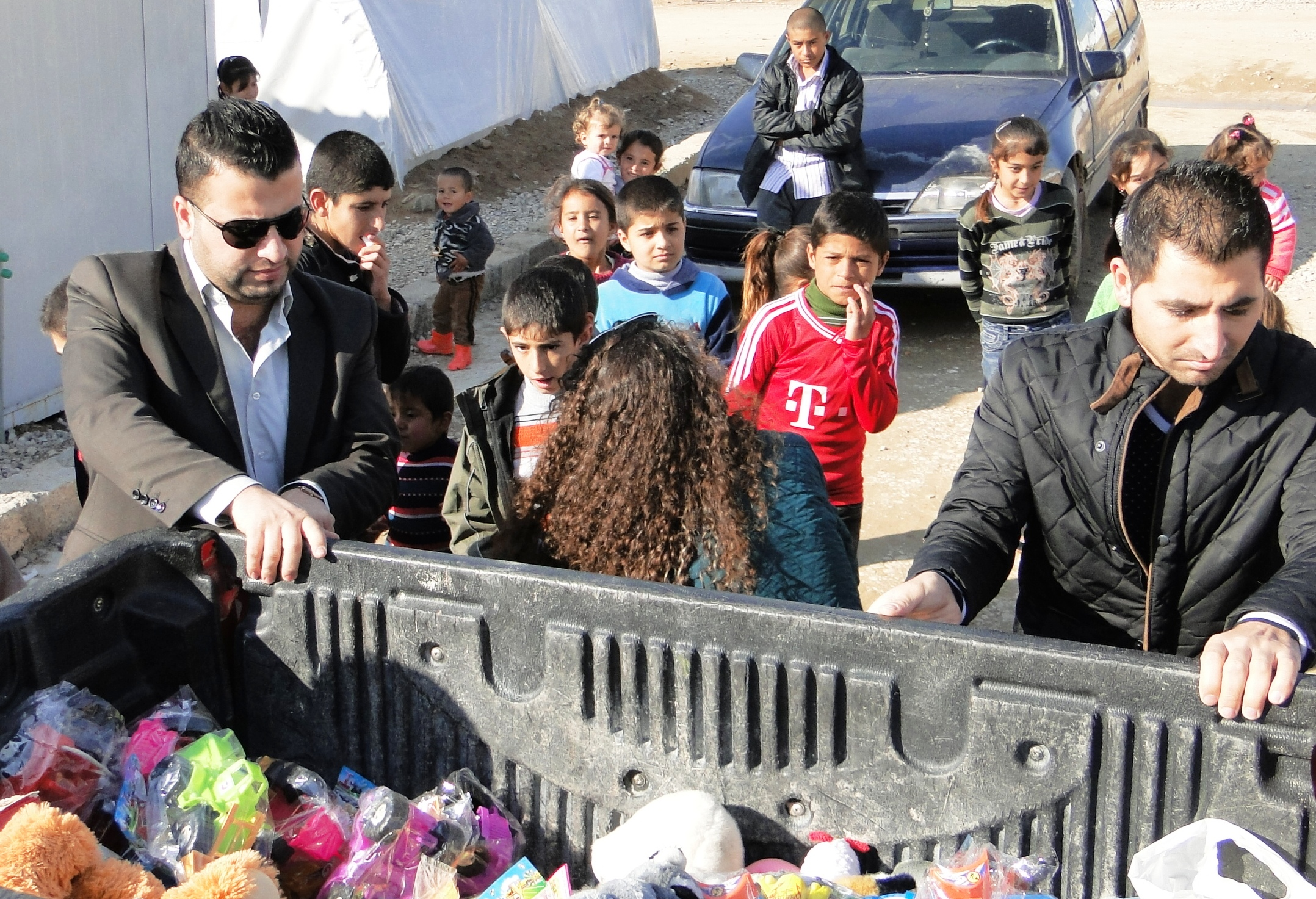 Defend International and its supporters provided humanitarian aid to Yazidi refugees in Kurdistan region, Iraq. Thanks to our donors!